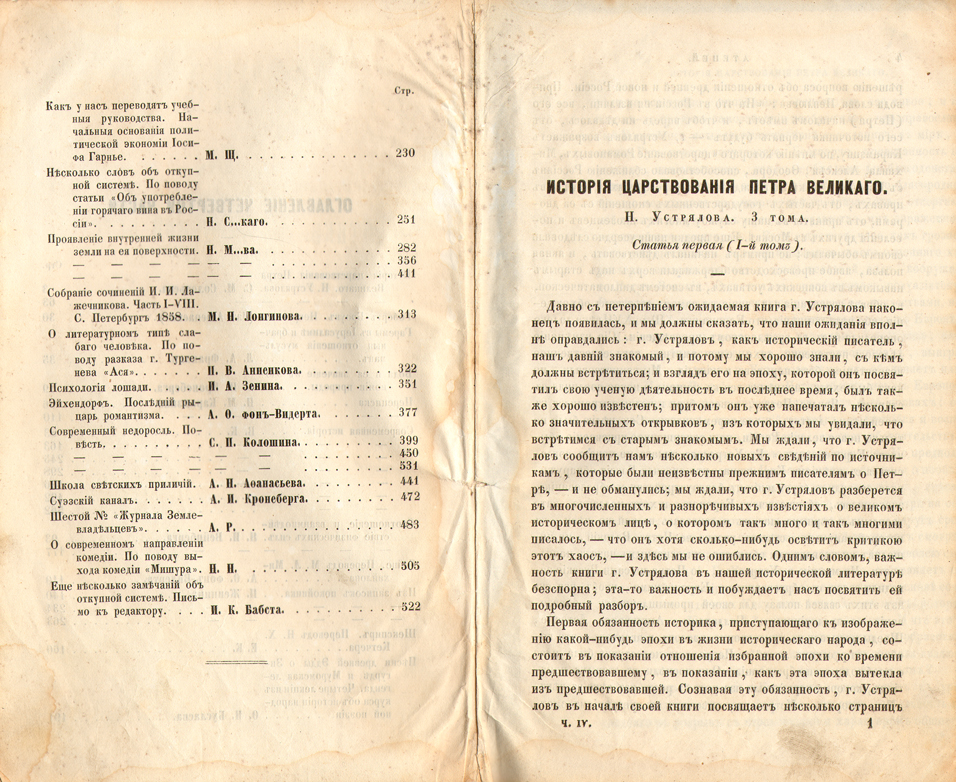 Article by Sergey Solovyov